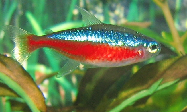 Cardinal Tetra (Paracheirodon axelrodi)